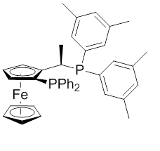 Xyliphos ligand